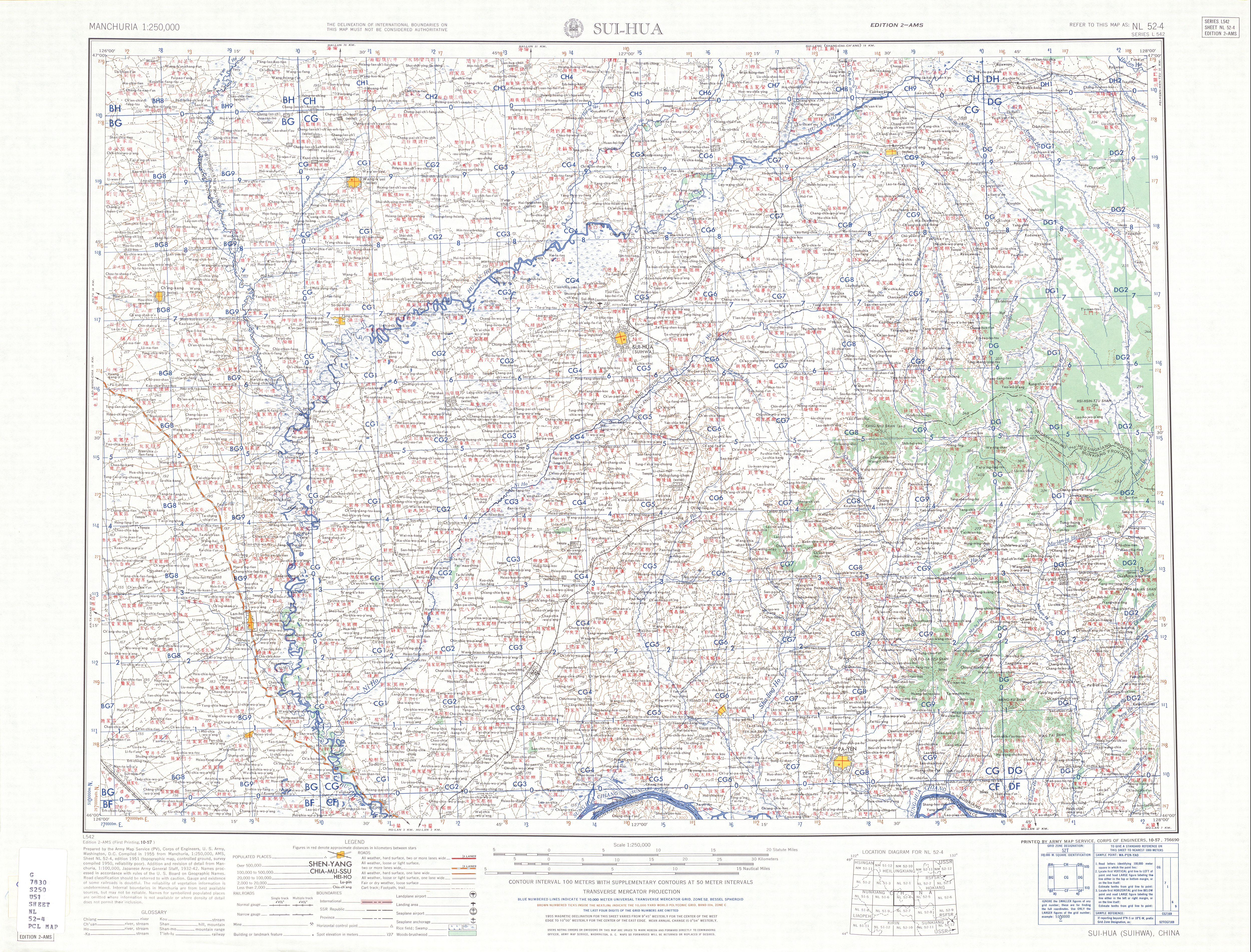 Manchuria AMS Topographic Maps